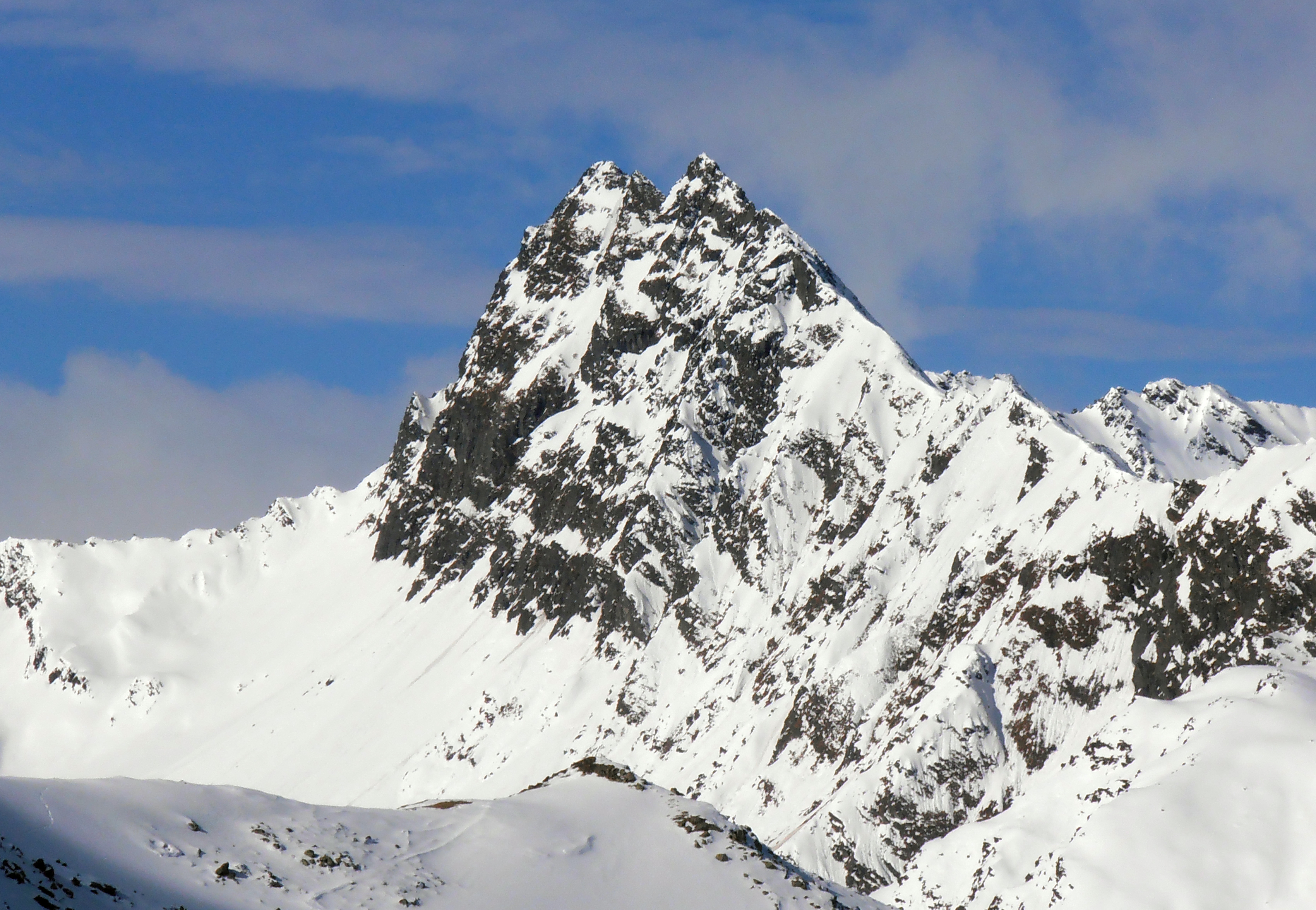 Hohe Villerspitze from E (Seeblasspitze)